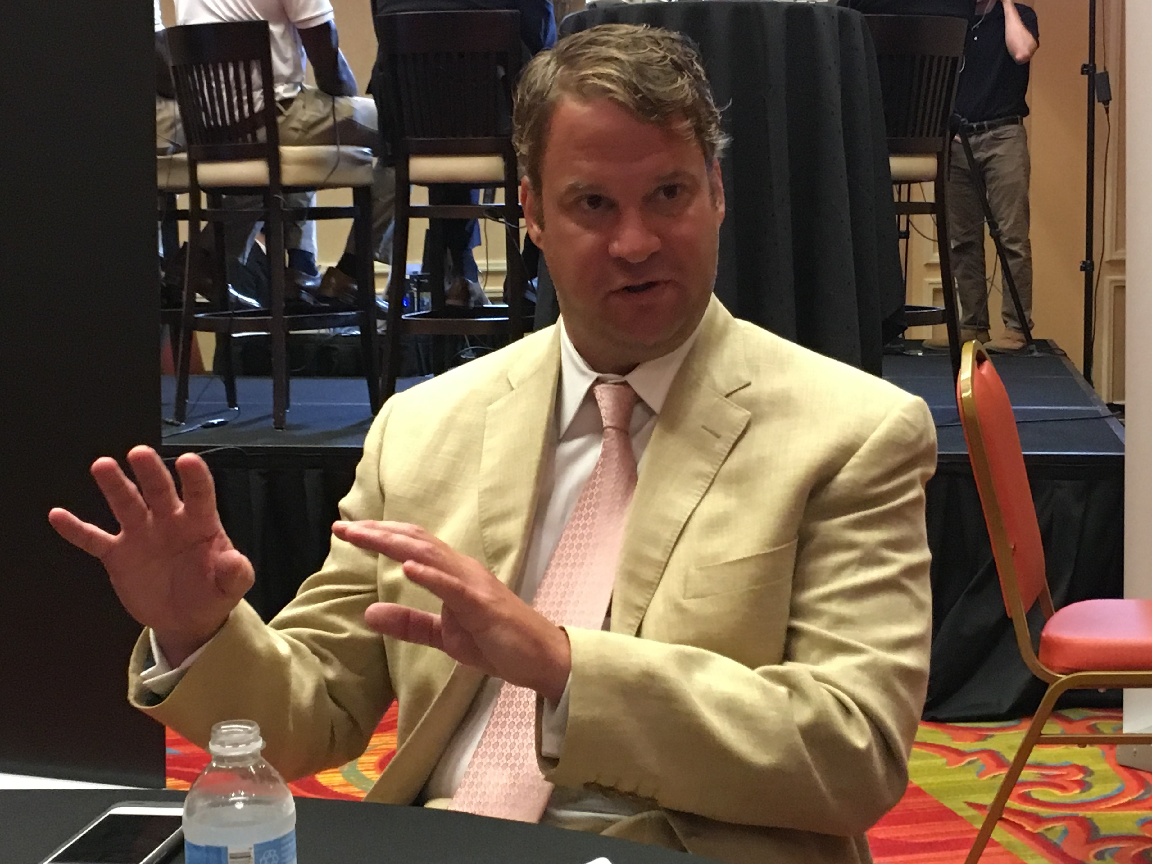 Lane Kiffin, head coach of the FAU Owls football team, at the 2017 Conference USA media days in Irving, Texas.